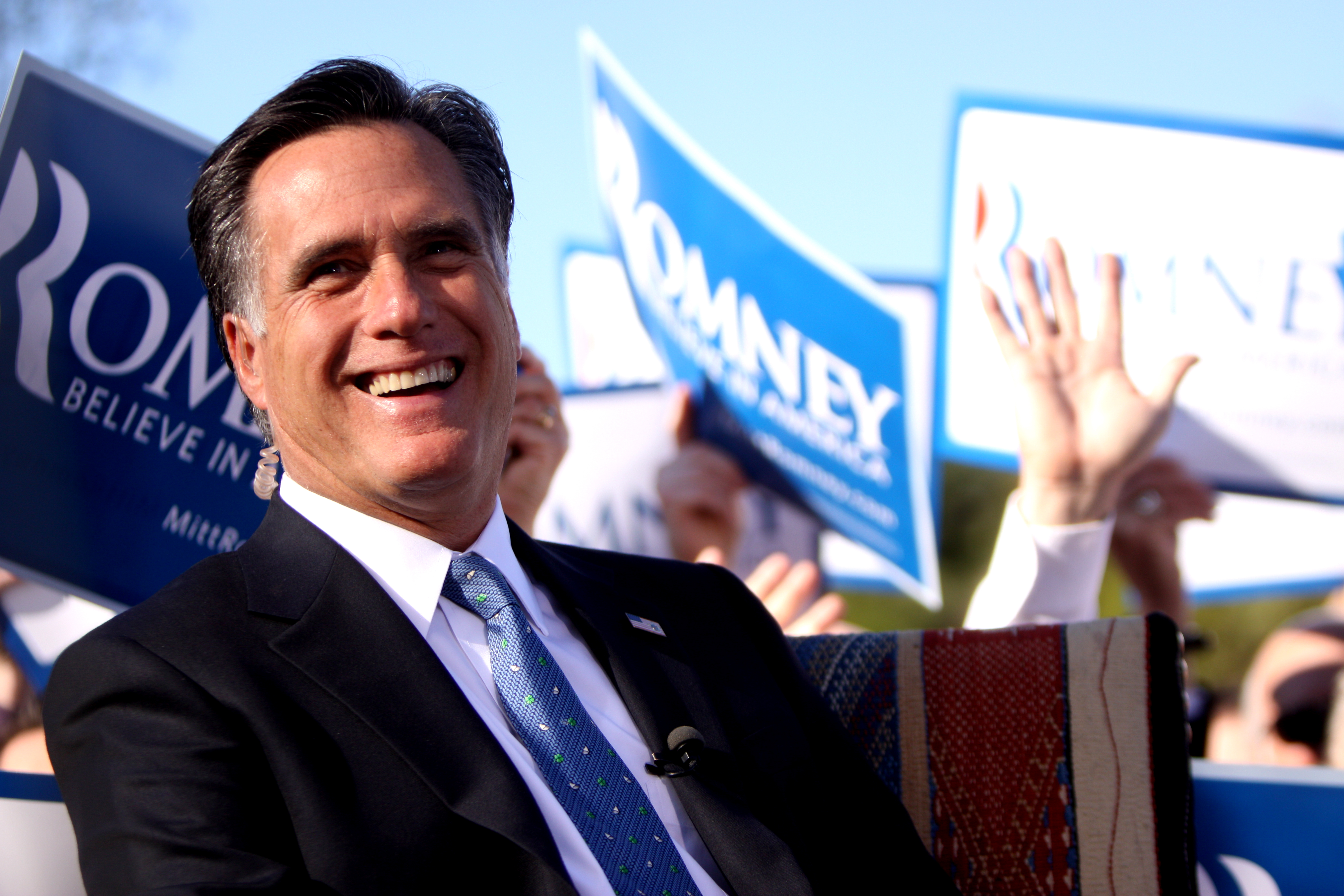 Mitt Romney laughs at a rally in Paradise Valley, AZ.